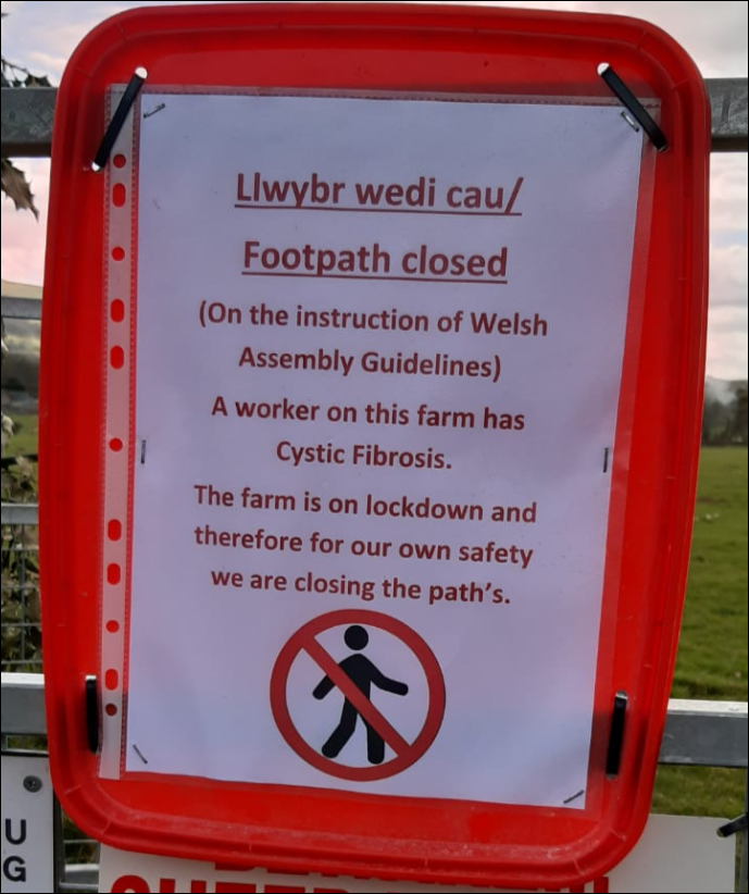 'Footpath closed' warning due to coronavirus at Cae Ddol, Rhguthun, Sir Ddinbych / Denbighshire, Cymru Wales.